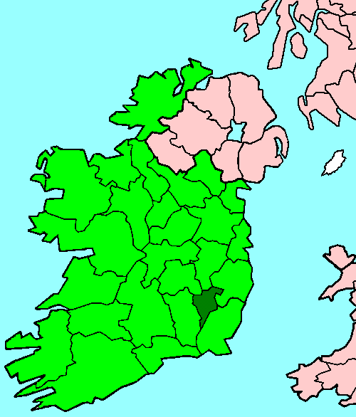 Carlow